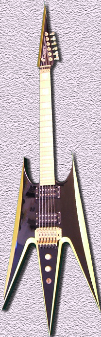 Photography of Izumi's Ochiai guitar model.